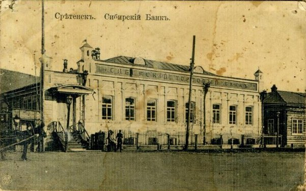 Old Russian postcard depicting Siberian Bank in Sretensk, Russia, published by F. I. Yudin, No. 11, 1911 or earlier.